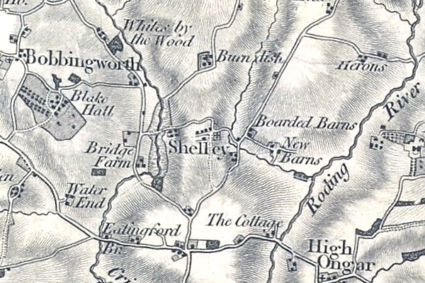 1805 Ordnance Survey map of Shelley in the Epping Forest District of Essex, England